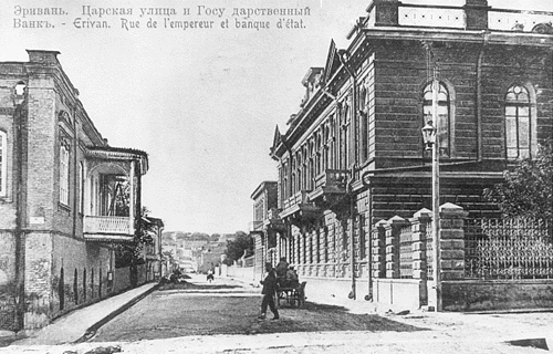 Երևանի Ցարսկայա, այժմ Արամի փողոցը Tsarskaya, now Aram street of Yerevan